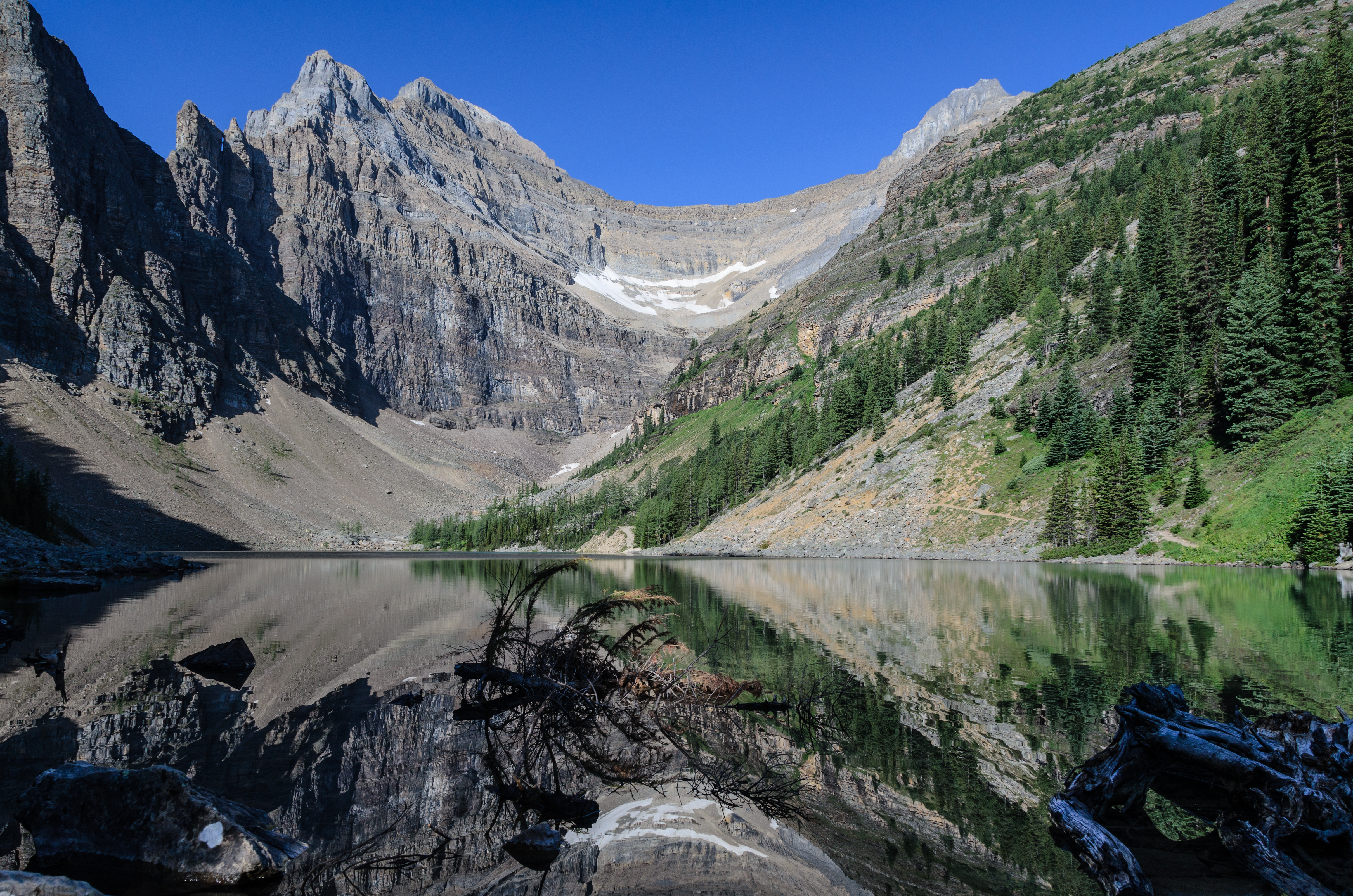 Lake Agnes in Banff National Park, Canada with Mount Whyte